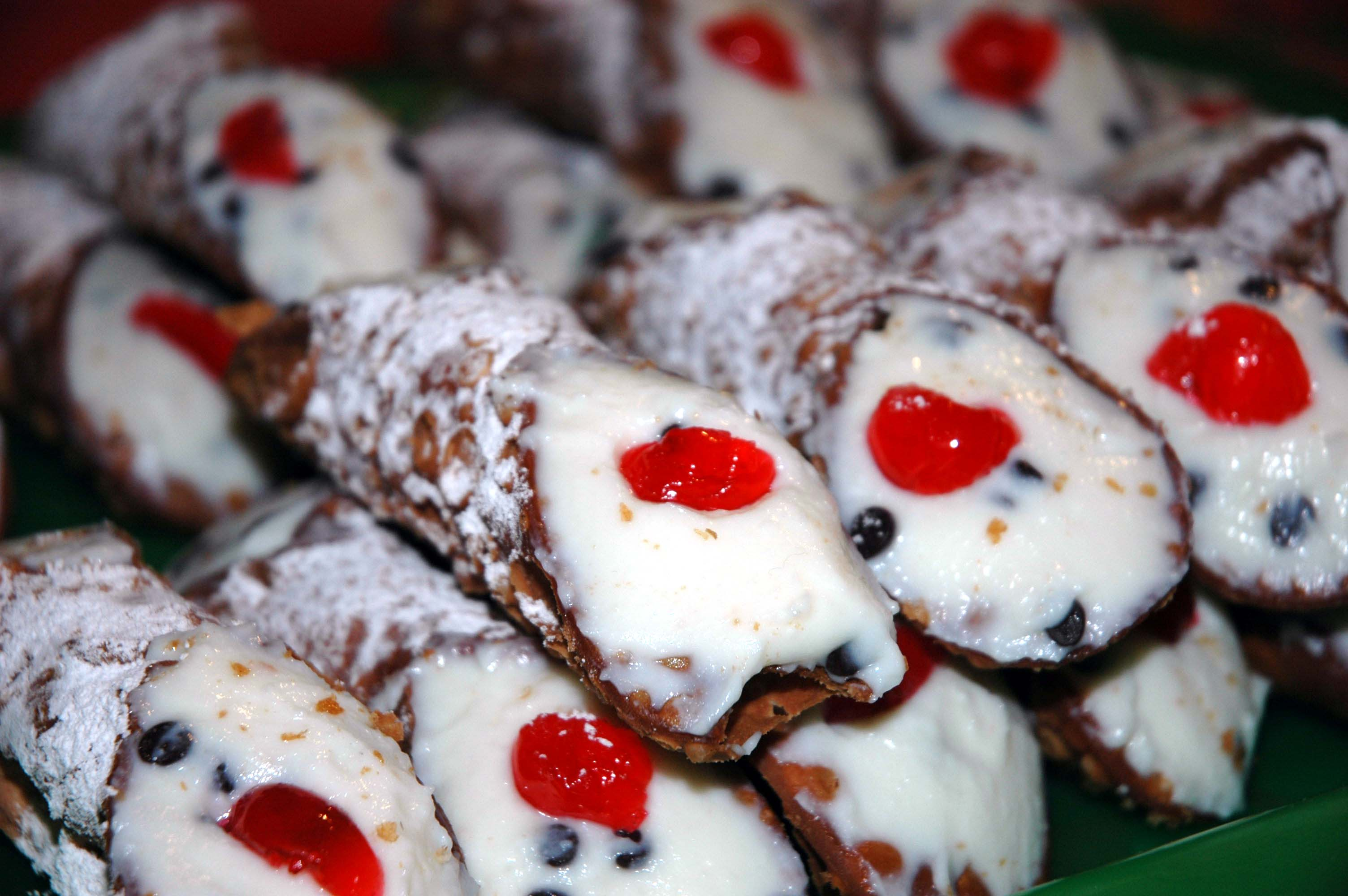 Home-made cannoli at family's New Year's Eve party in Sant'Elia, province of Palermo Sicily.